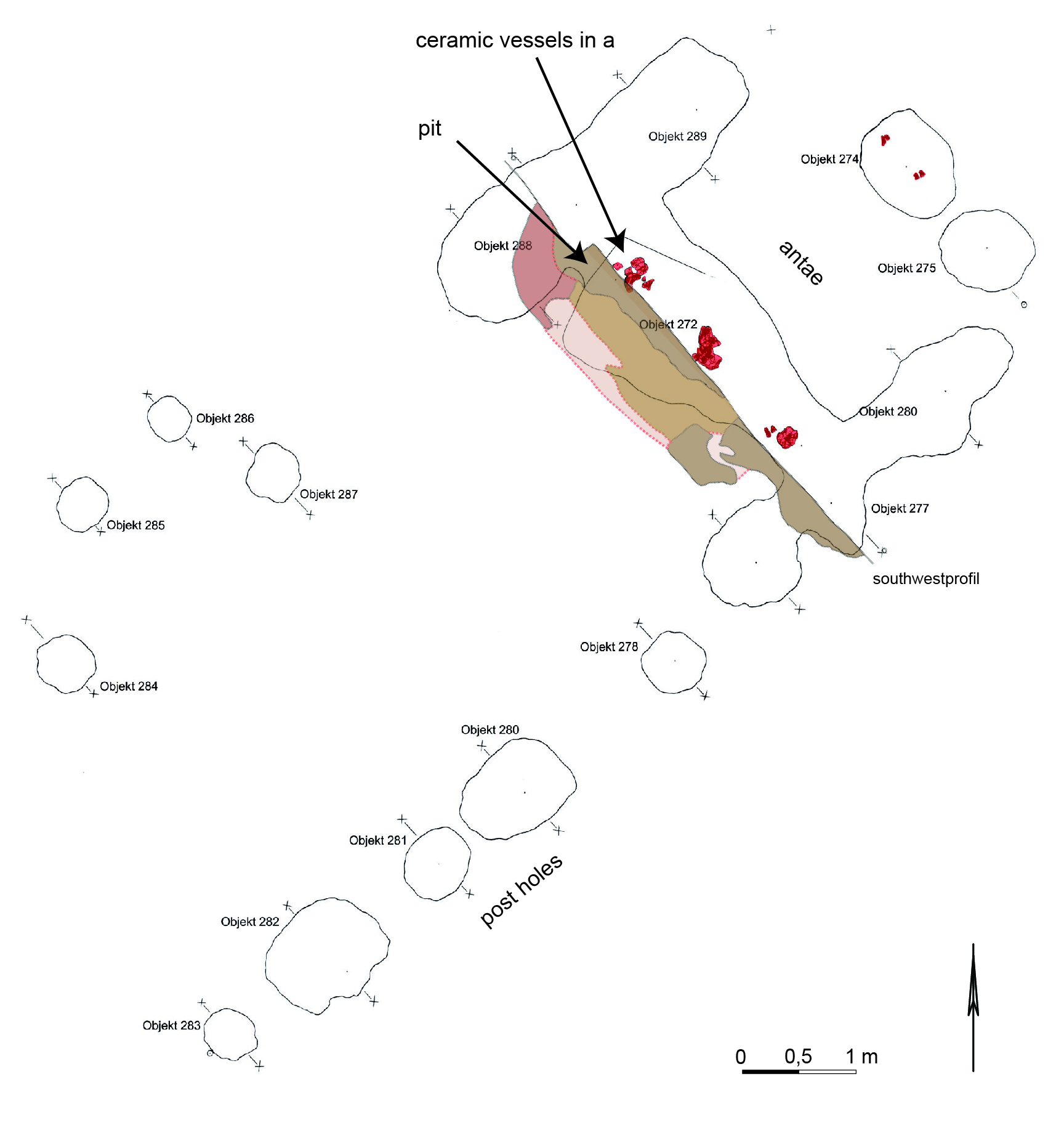 Archaeological record of the antaehouse of the cemetery of Neumarkt an der Ybbs.